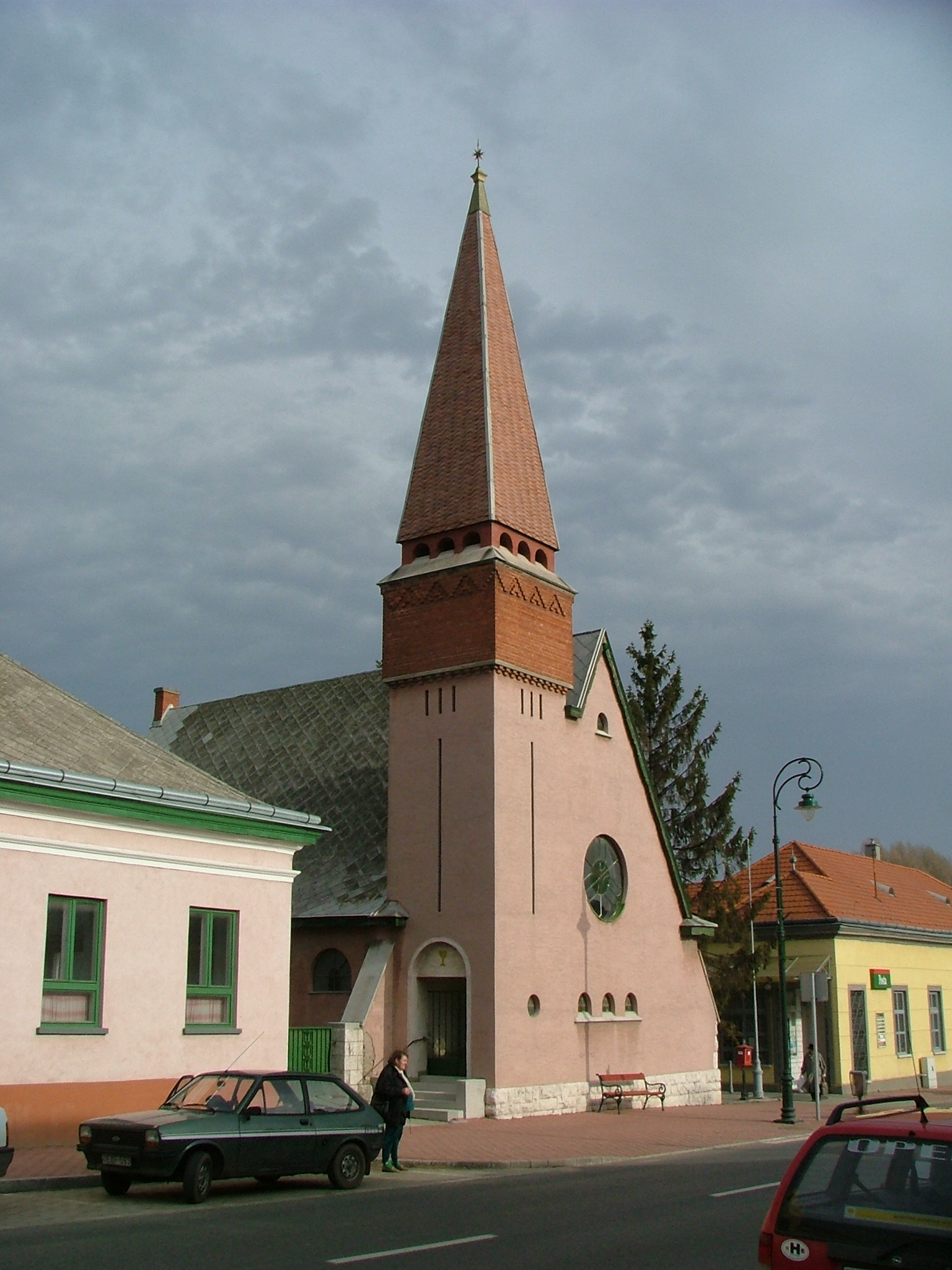 Kisbér, reformed church